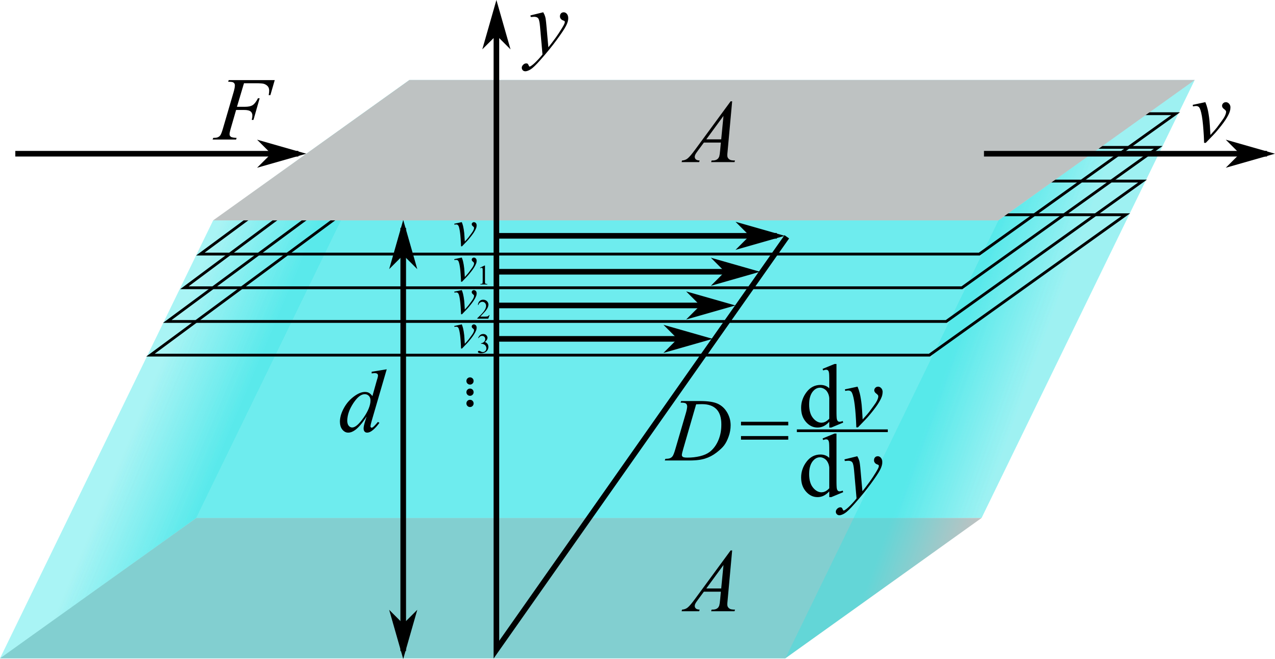 Definition of physical unit viscosity